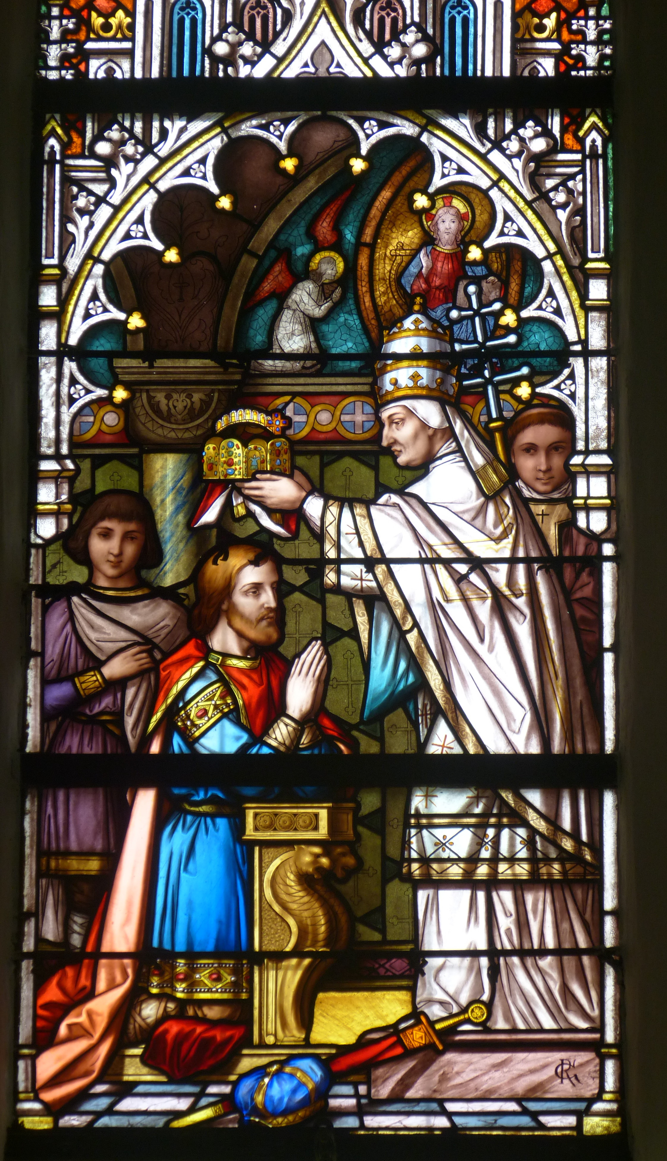 Thaya (Lower Austria). Saints Peter and Paul parish church - Stained glass window (1896) showing the coronation of Charlemagne.